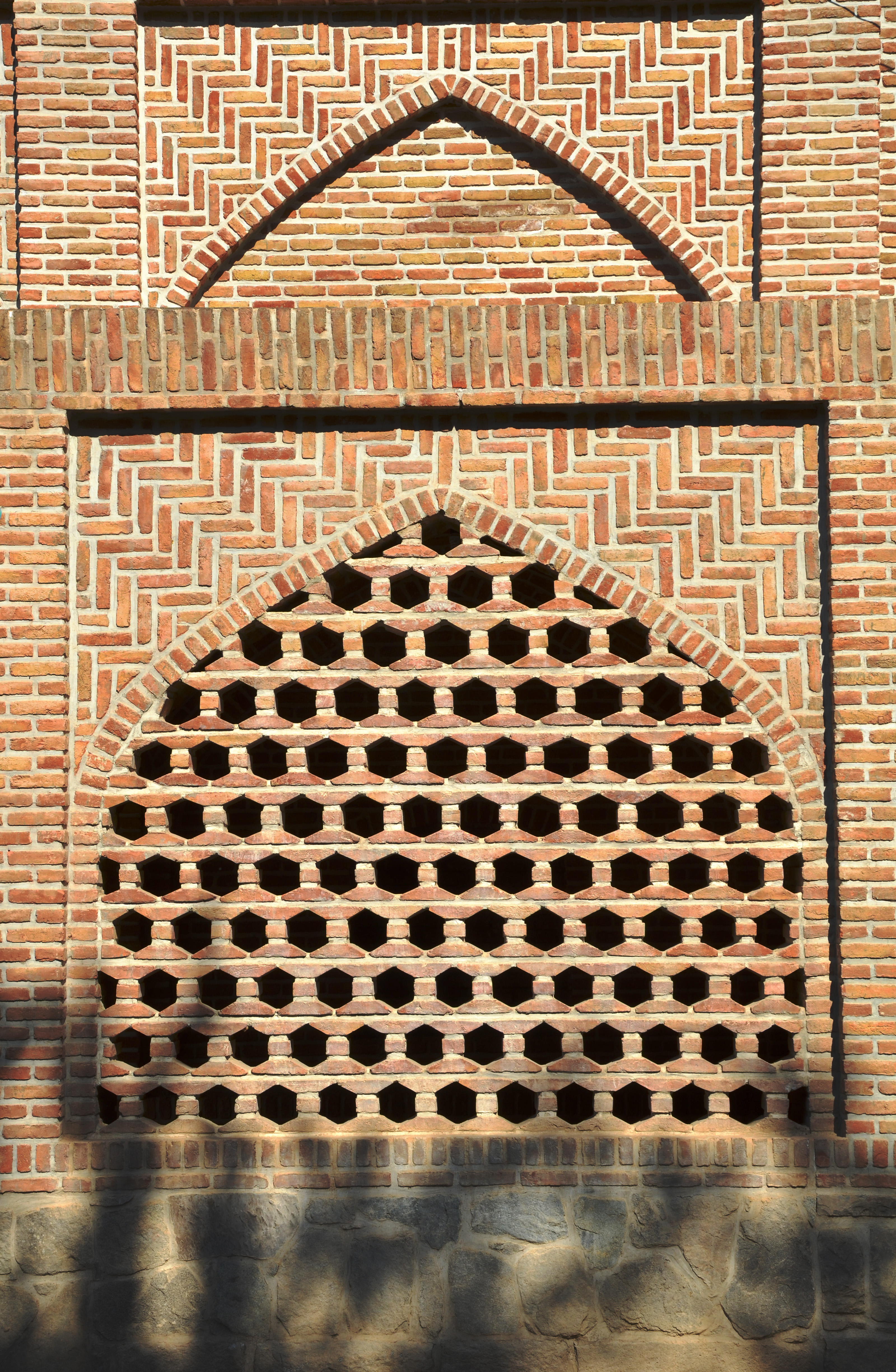 Iran - Kordasht old bath